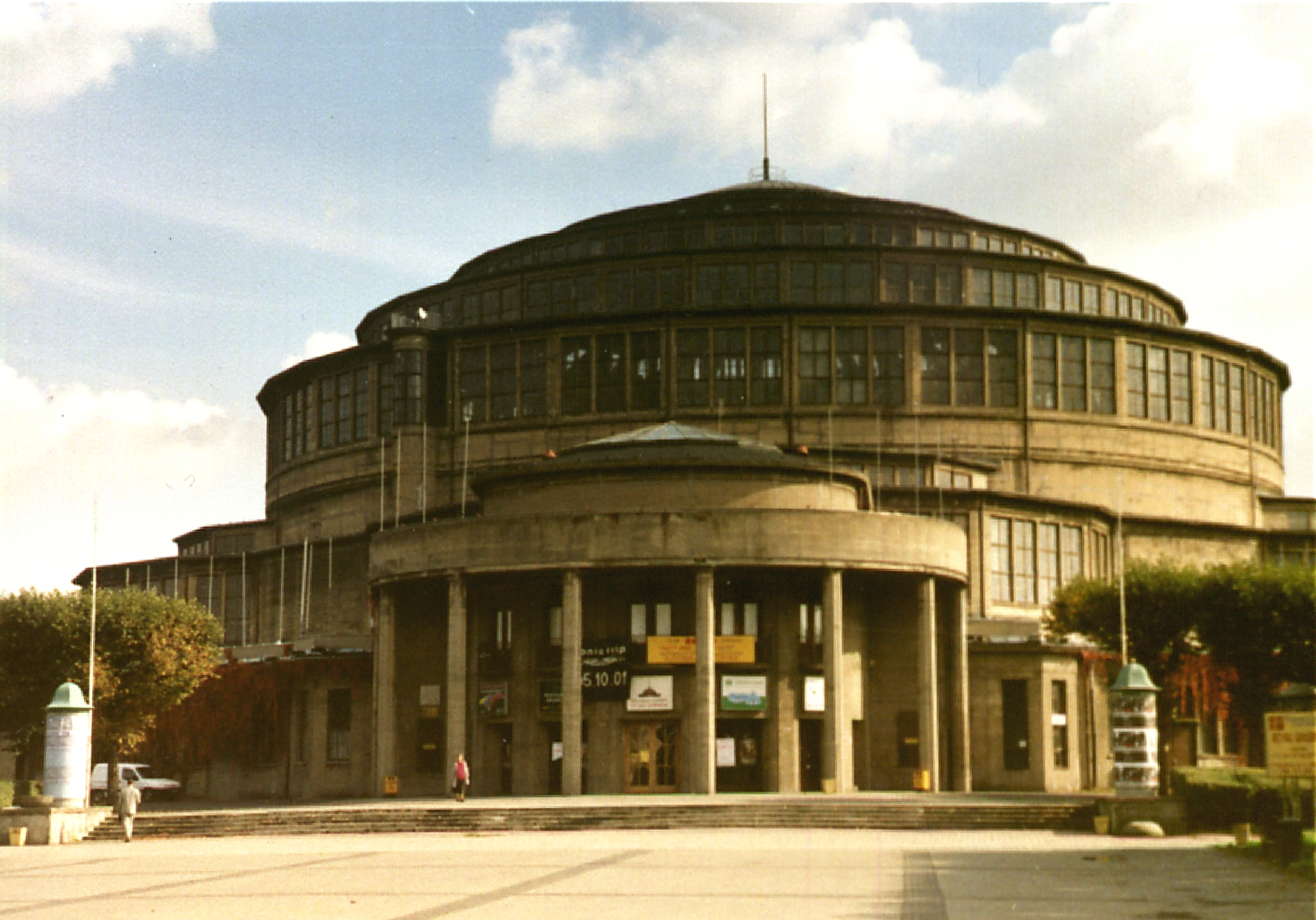 Wrocław, Poland Jahrhunderthalle by Max Berg (now Hala Ludowa), 1913. Early modern. Photo taken by shaqspeare 2001, scanned 2005. GFDL